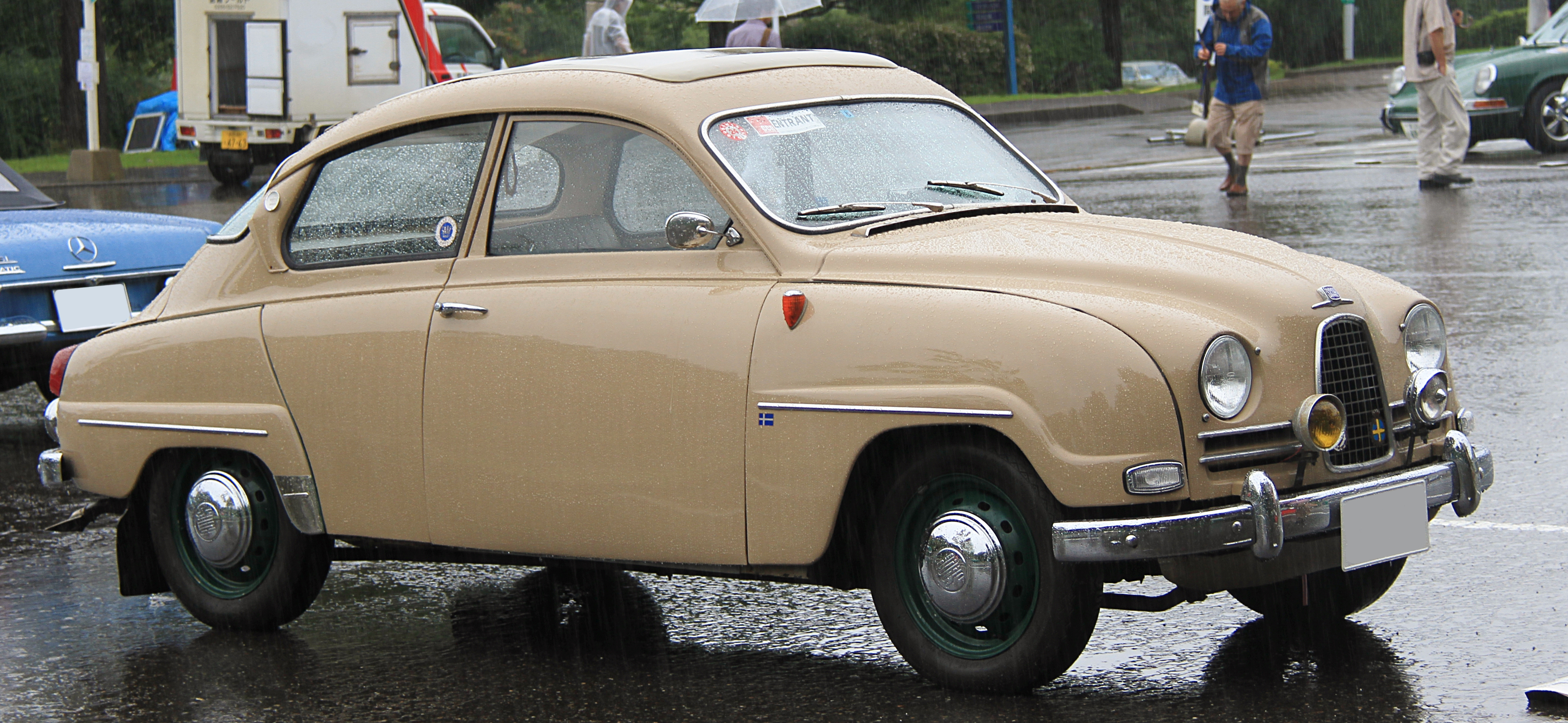 Saab 96